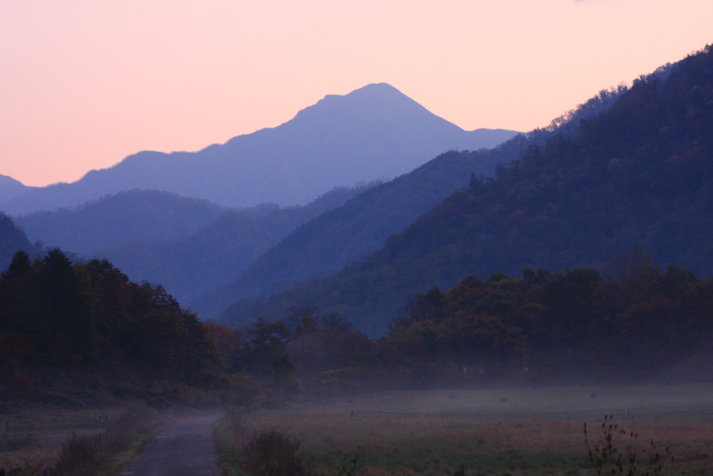 Mount Kamui seen from the Southwest.